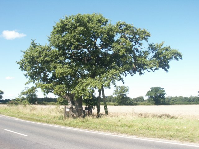 Kett's Oak, Hethersett. The tree beneath which Robert Kett began his revolt in 1549. It stands beside what was the A11 but is now the B1172 with the building of the A11 trunk road nearby. Ket's_Rebellion